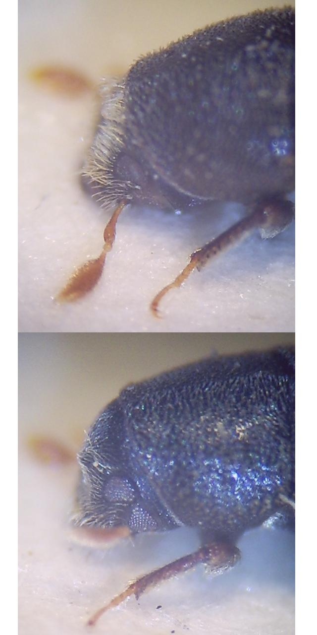 Polygraphus_grandiclava,_frons,__female_(top)_and__male_(bottom).